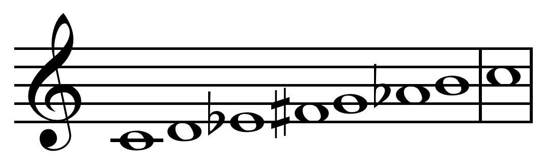 Hungarian gypsy scale - C